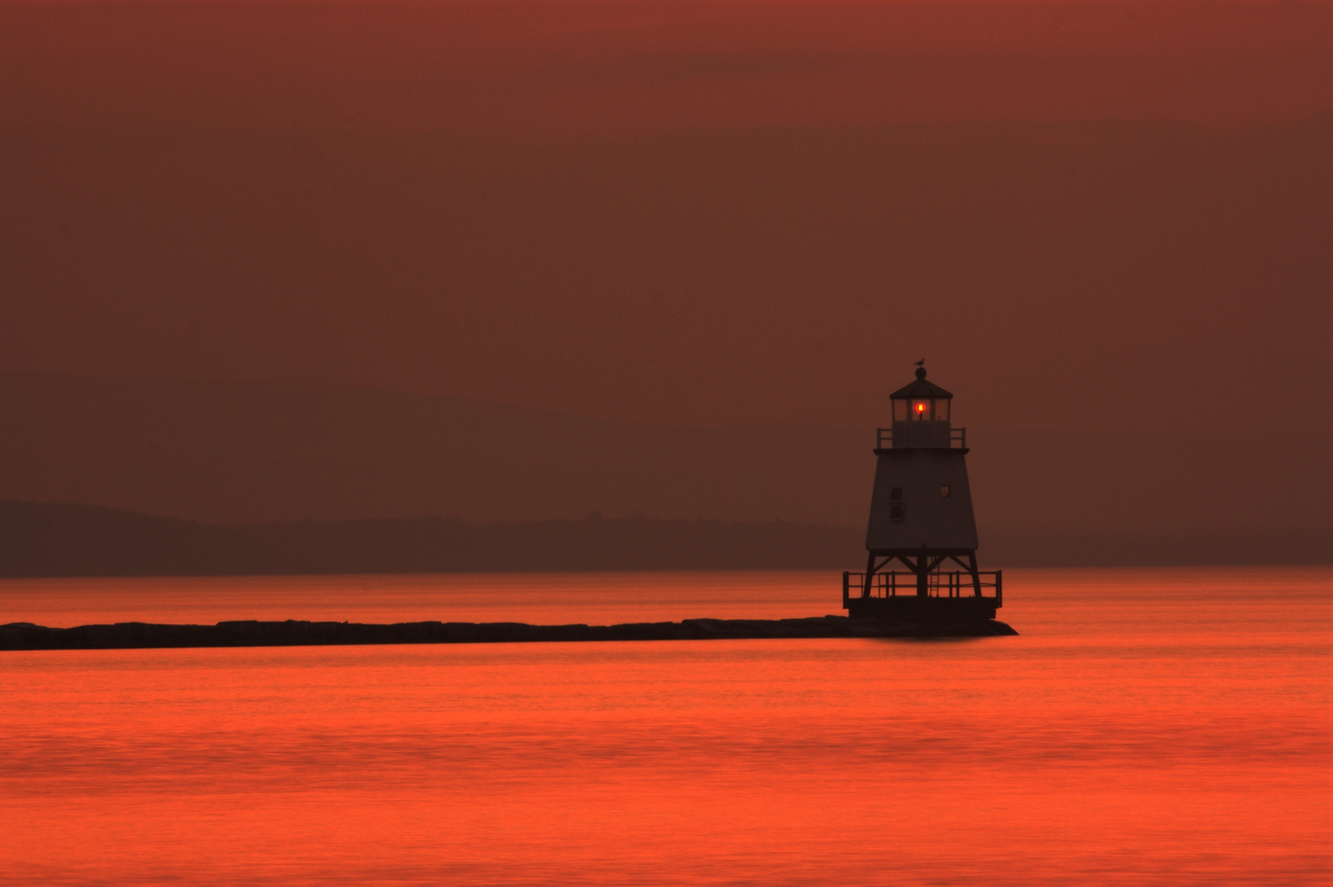 The light house in Lame Champlain in the dusk as seen from Burlington VT.